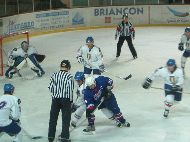 Tomaž Vnuk, slovenian ice hockey player